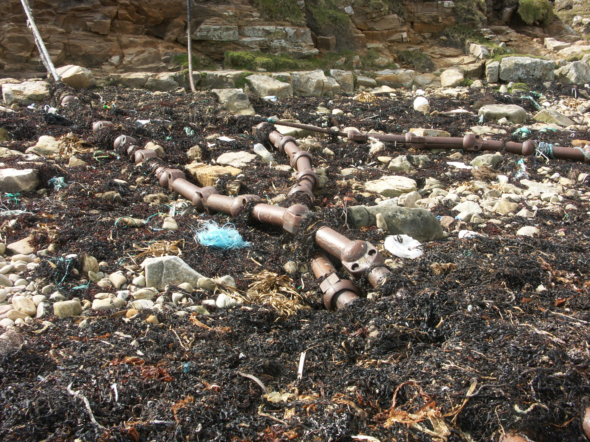 These are submarine telephone/telegraph cables coming ashore at Scad Head on the Isle of Hoy, Orkney. They terminate in a recent British Telecom building but are probably no longer in use. I suspect that they might date from World War II as there is a Coastal Gun Battery at Scad Head.